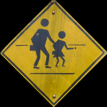 School crossing ahead, old road sign in Thailand